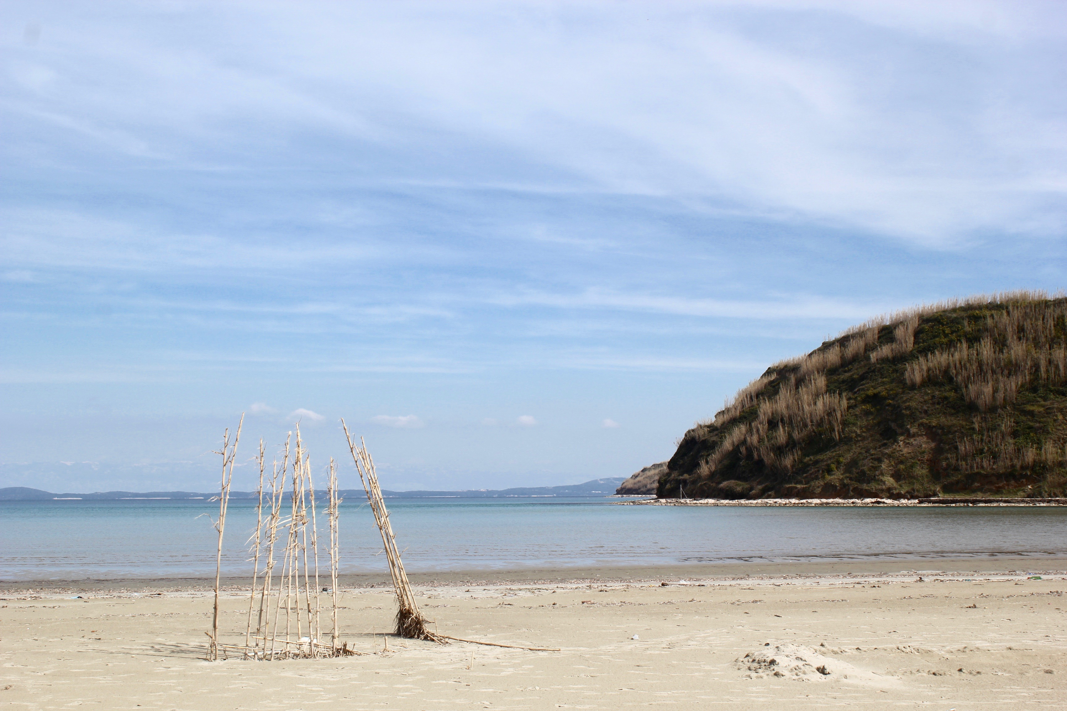 Canes growing on the island's beach